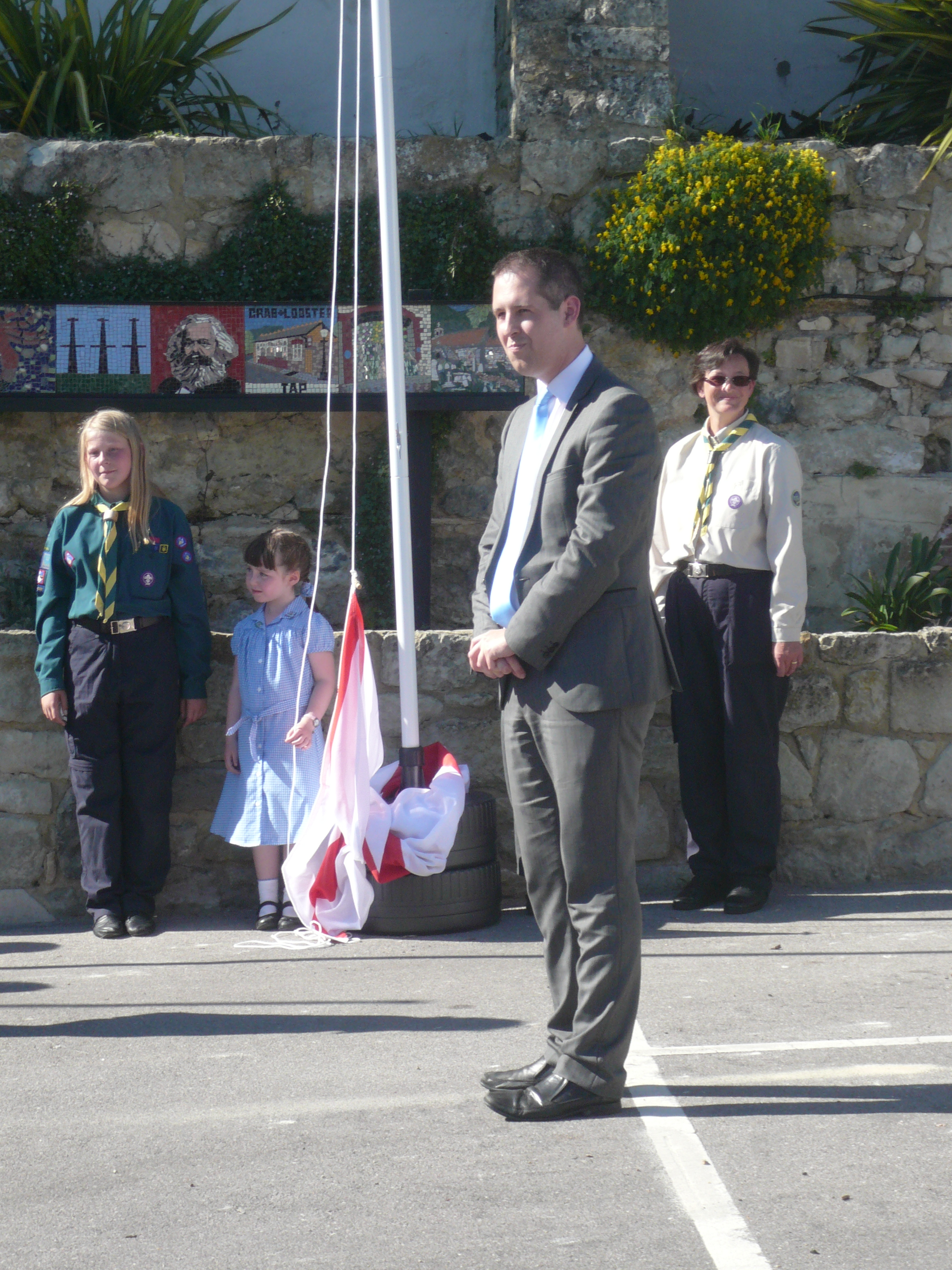 David Pugh, seen at the Town Centre Criterium cycling event for the Island Games 2011, held in Ventnor, Isle of Wight.